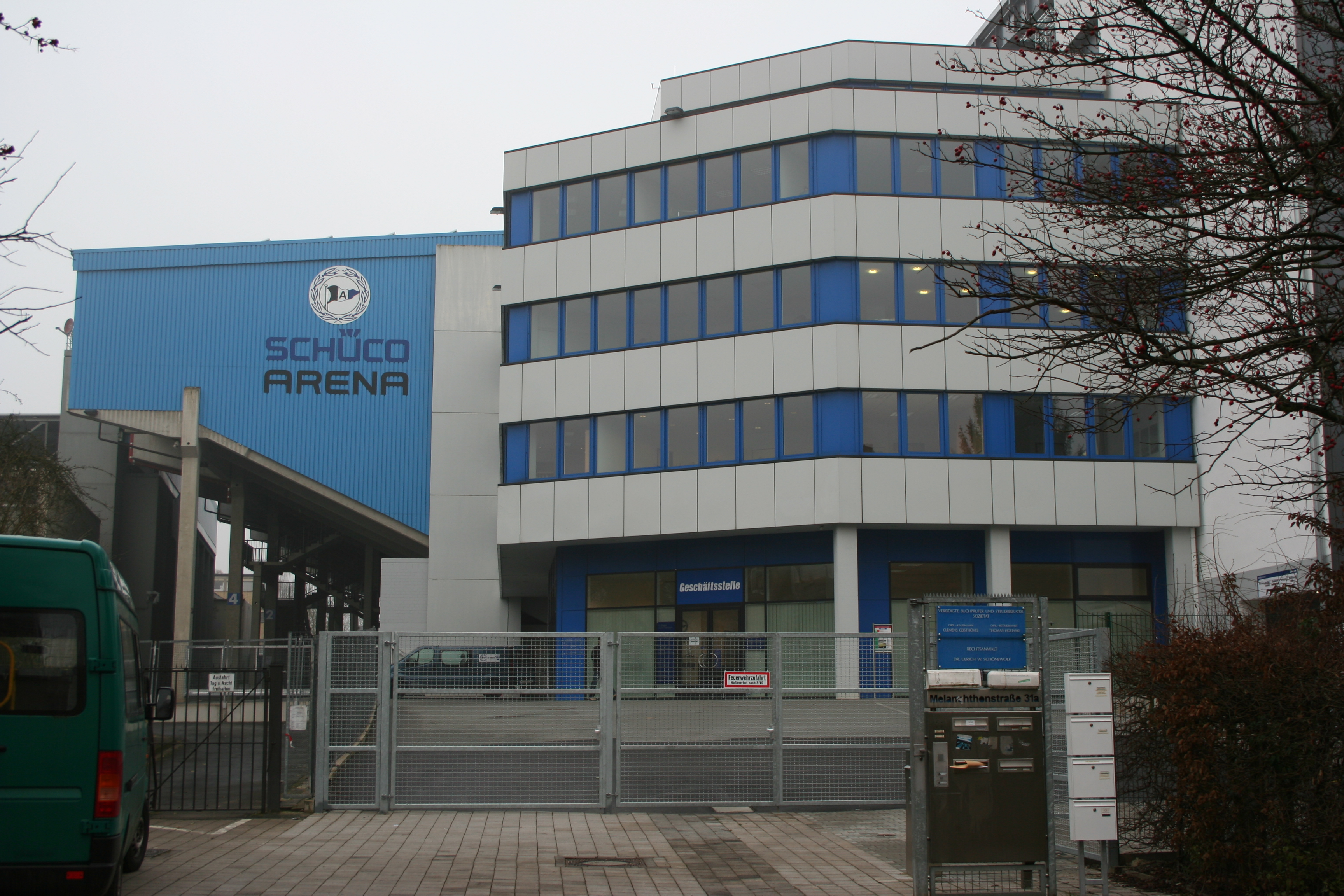 Administrative Office of the DSC Arminia Bielefeld